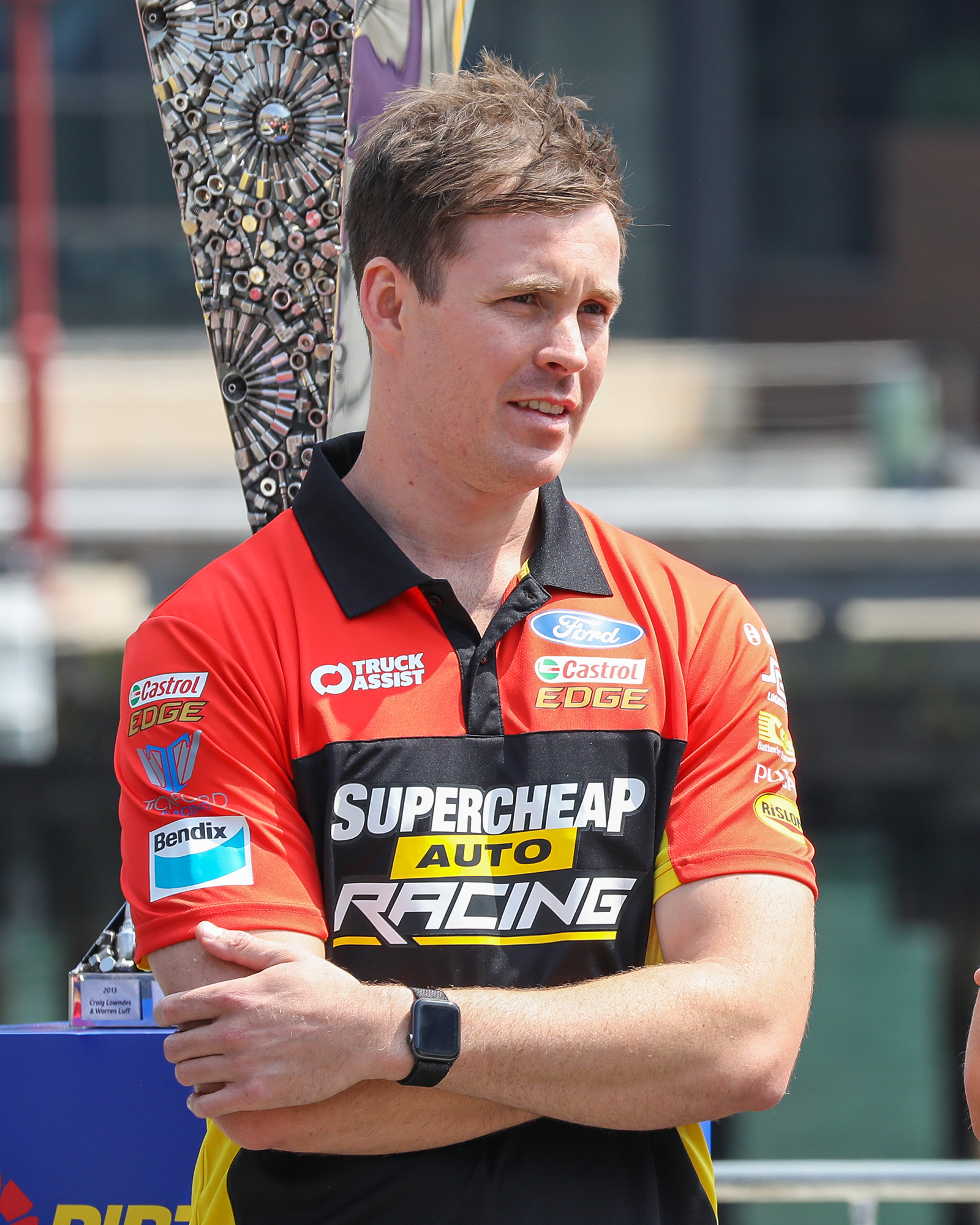 Jack Le Brocq at the 2020 Supercars season launch